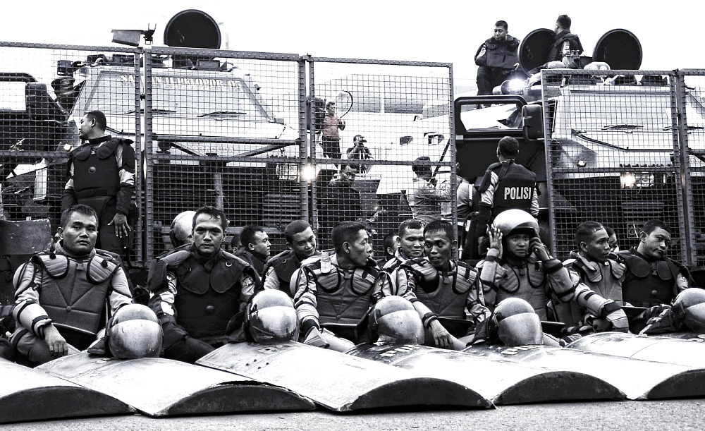 BRIMOB officers/equipment.